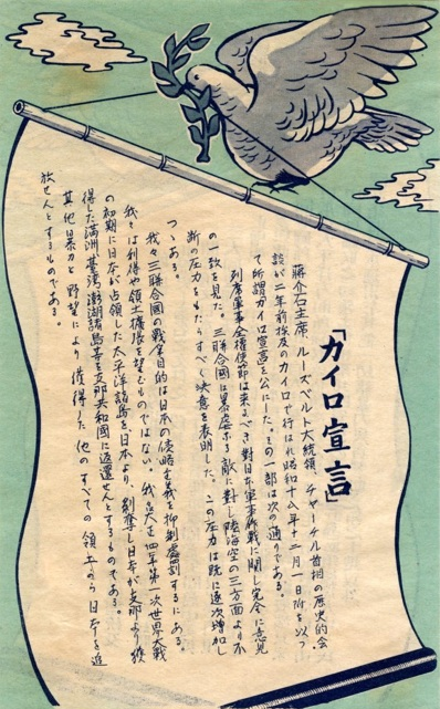 The Cairo Declaration dropped to Taiwan by US aircrafts